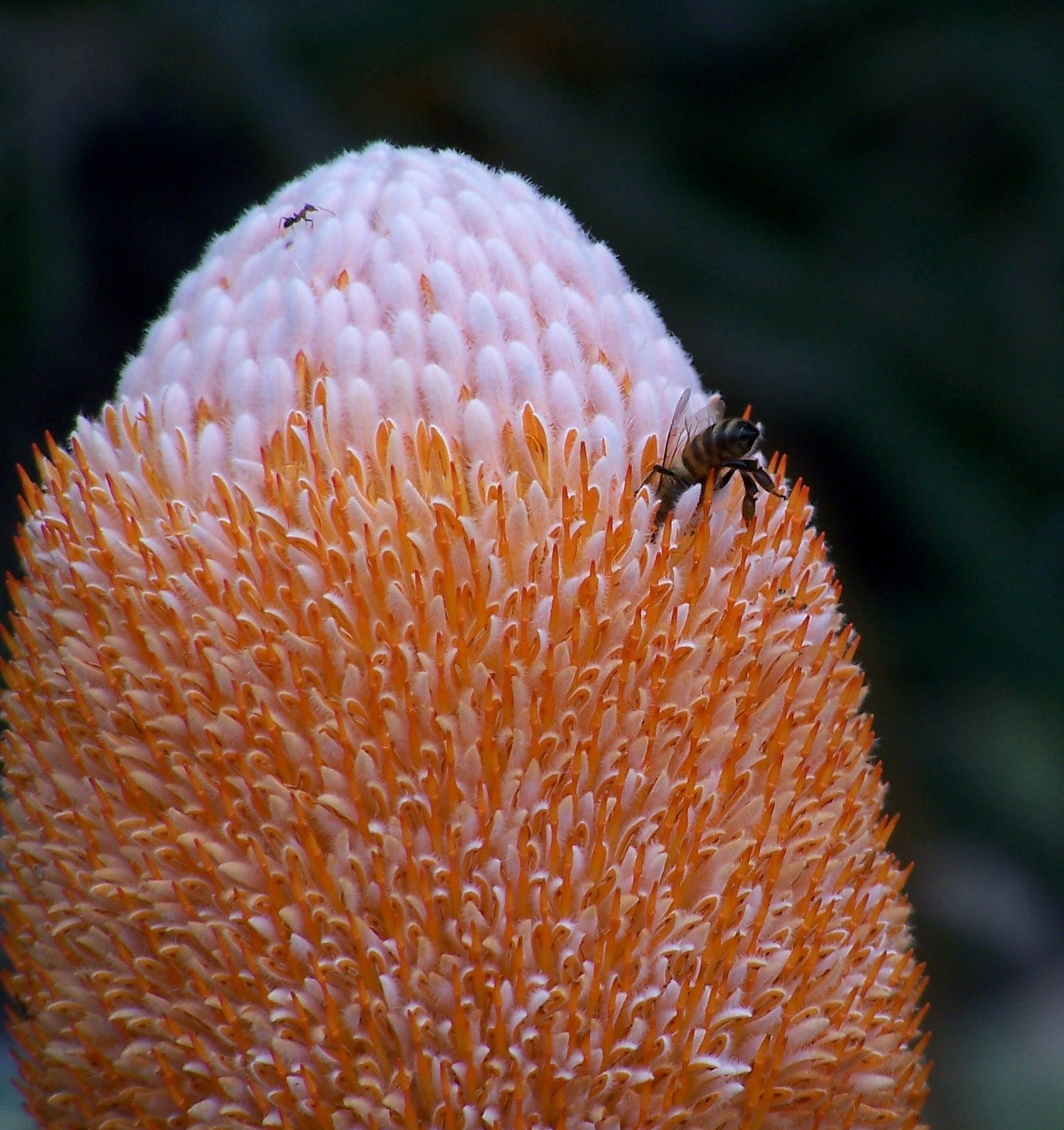 Banksia prionotes taken at Reabold Hill in Bold Park Floreat Western Australia